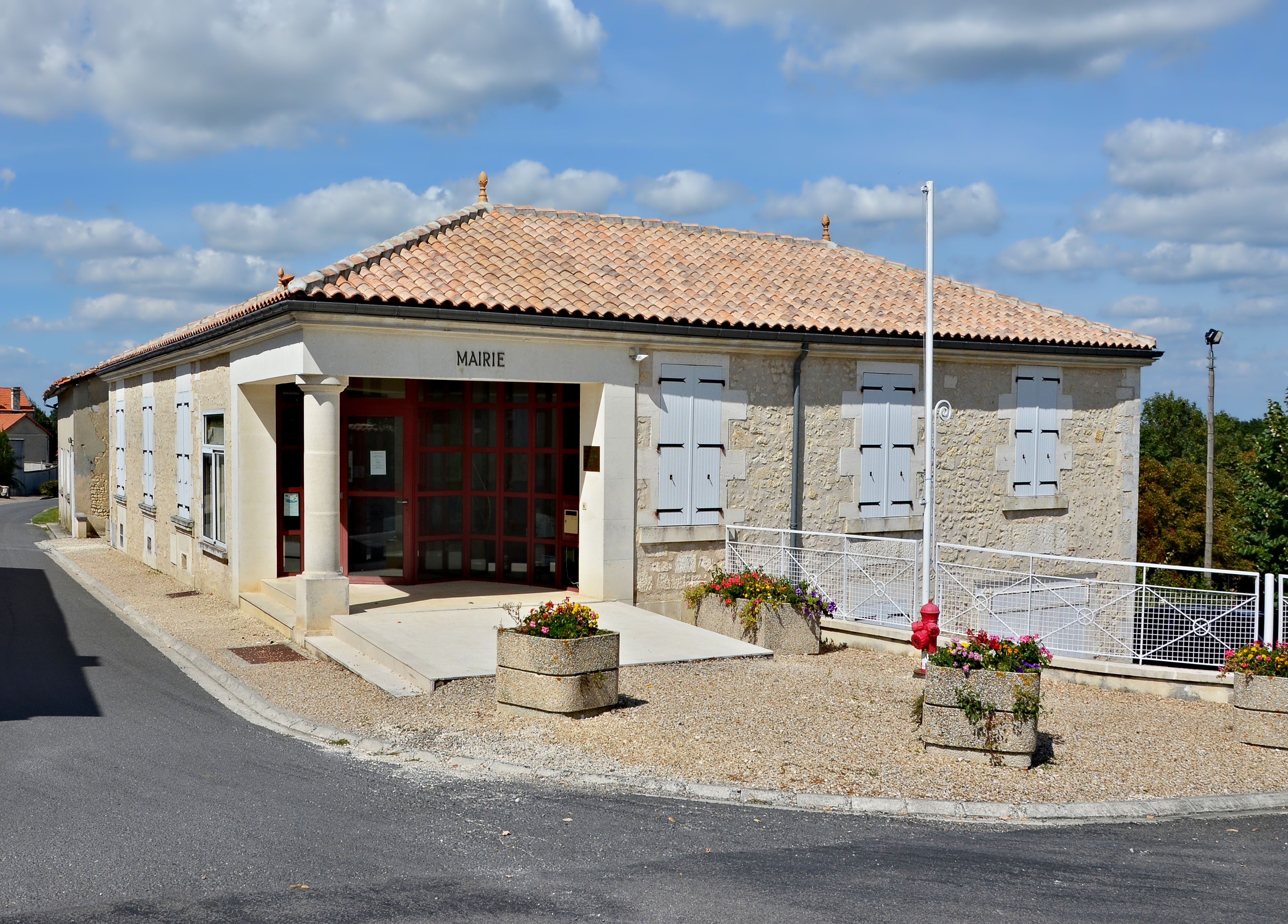 Refurbished traditional house now used as a townh hall, Montchaude, Charente, France.